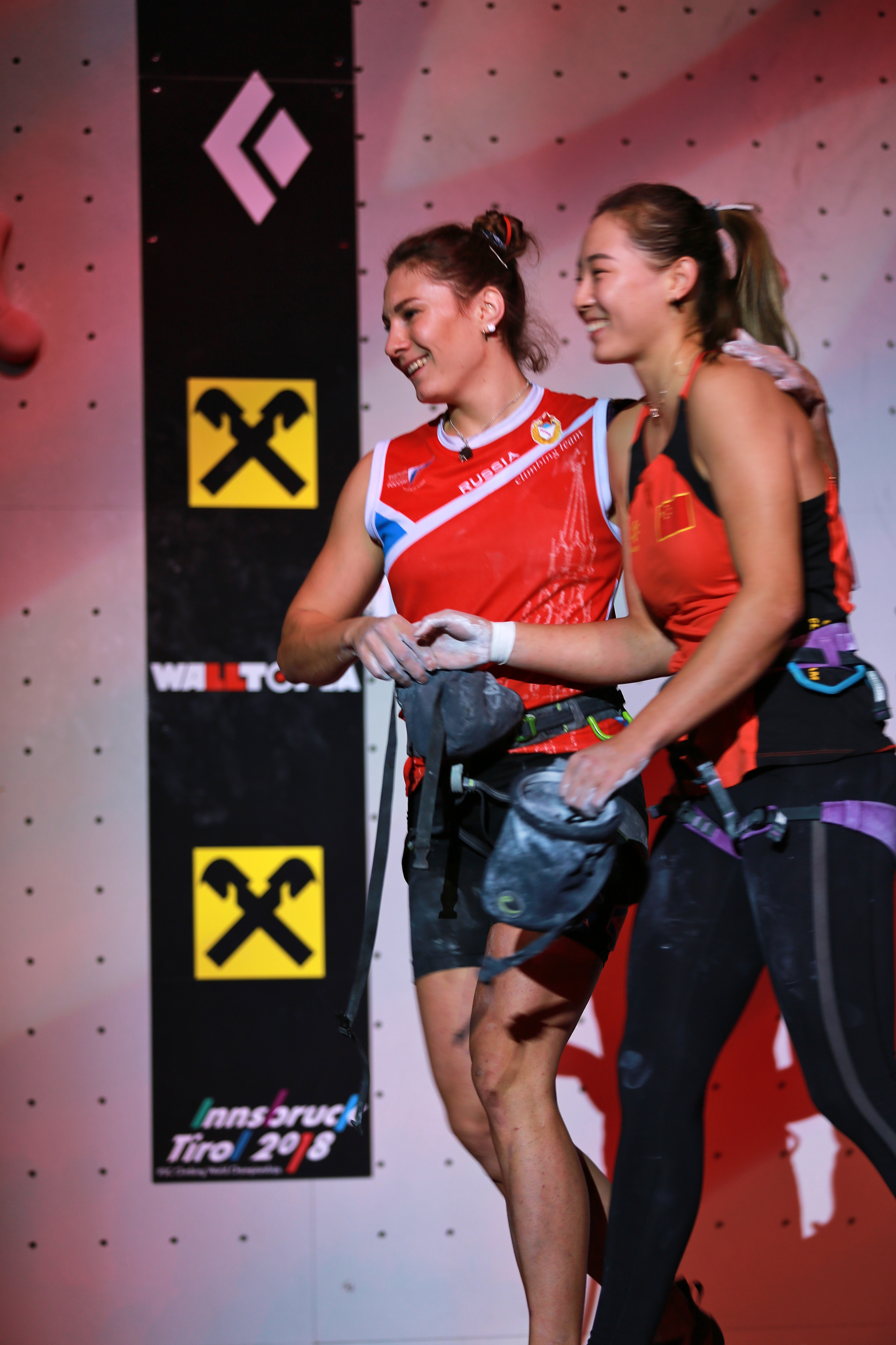 Climbing World Championships 2018 Speed Eighth-finals